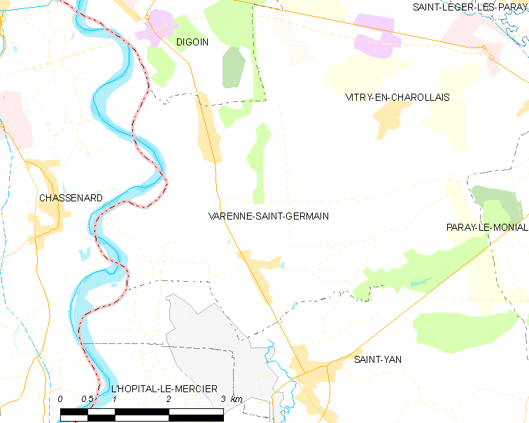 Map of French municipality